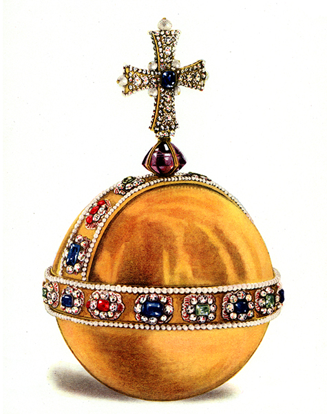 An illustration of the Sovereign's Orb.